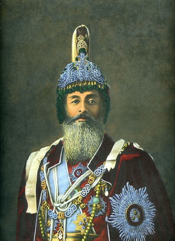 A contemporary portrait of Chandra Shamsher Jang Bahadur Rana (1863-1929), former Prime Minister of Nepal and Maharaja of Kaski and Lamjung